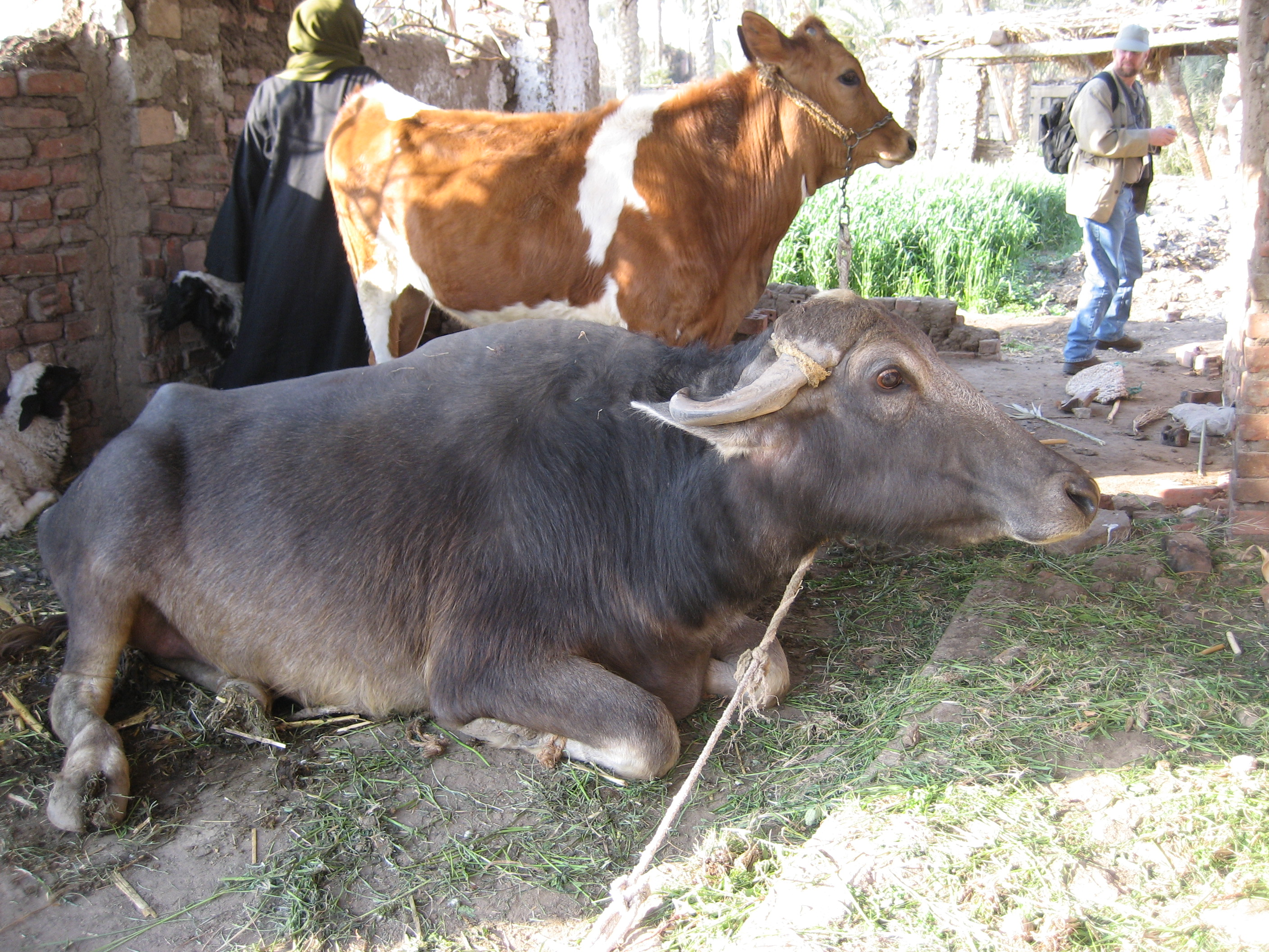 Water buffalo and cow in Egypt. Buffalo are still used for plowing